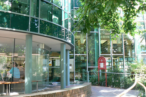 rob alberts, North Sydney Council, our dept took these photos